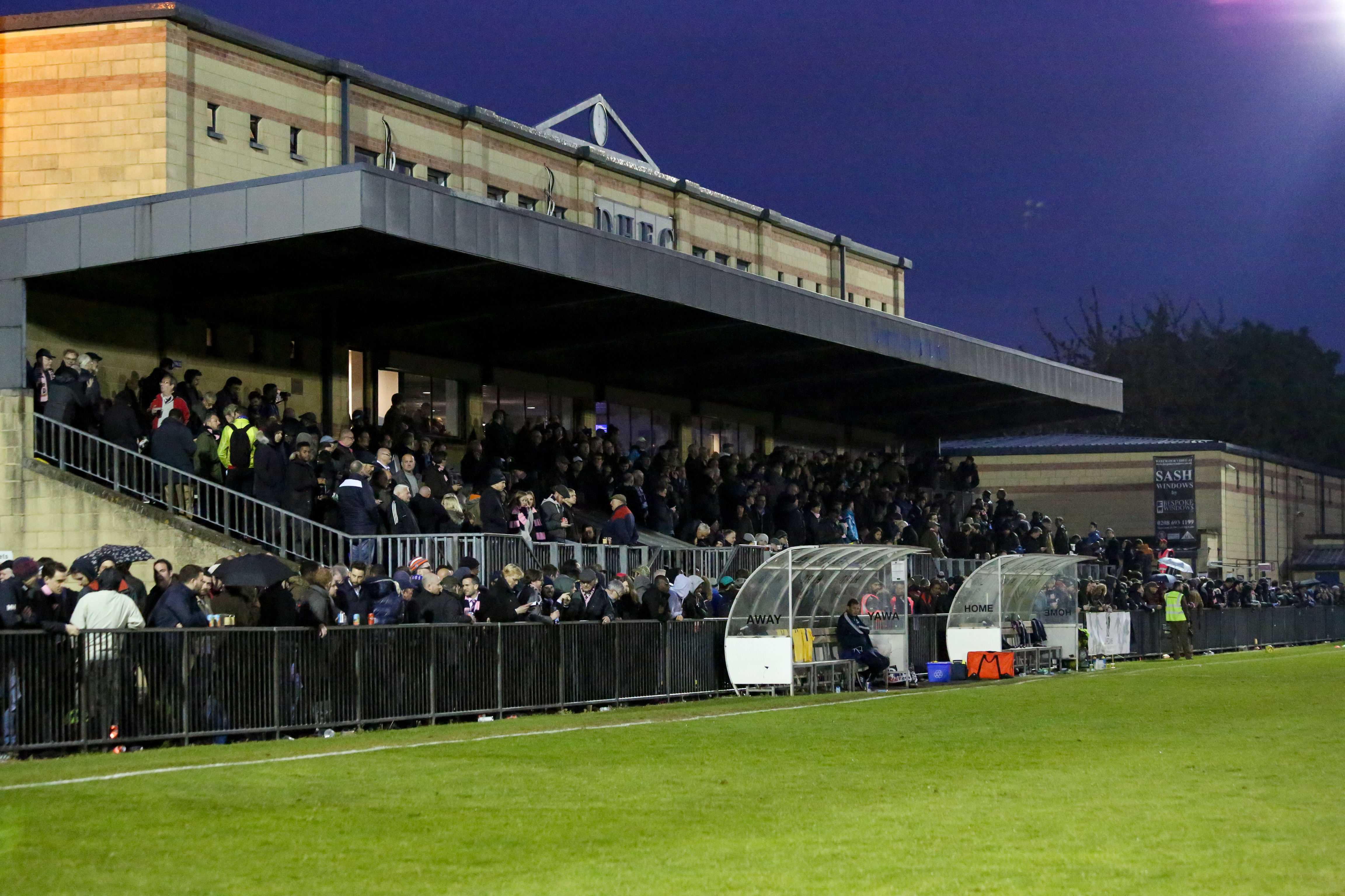 Dulwich Hamlet v Enfield Town, 27 April 2017